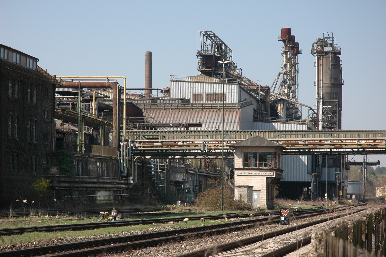 Some production areas of the Maxhütte which was shut down in 2002, viewed from the ironworks station Sulzbach-Rosenberg Hütte.